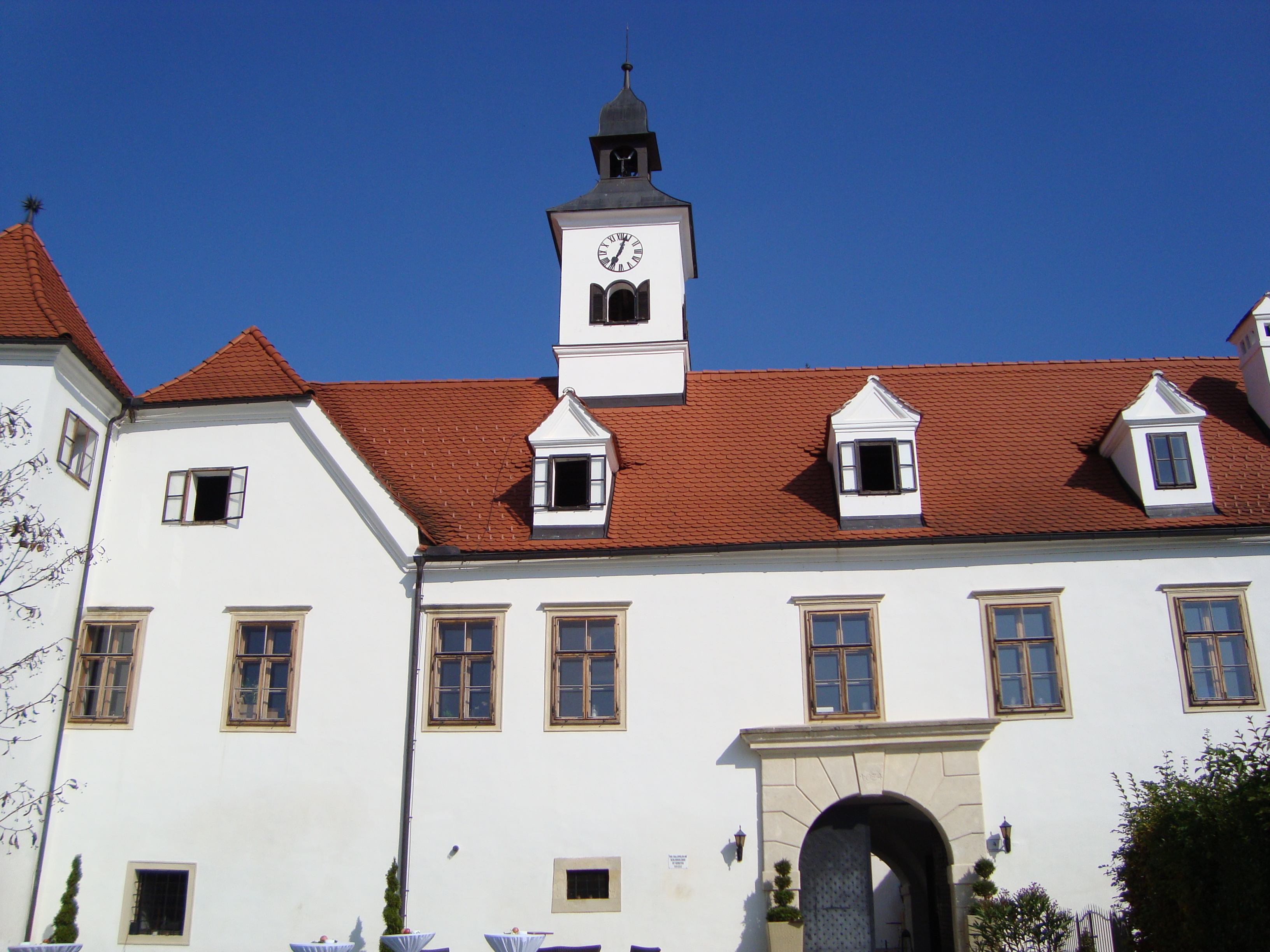 Castle Dornhofen, Styria, Austria